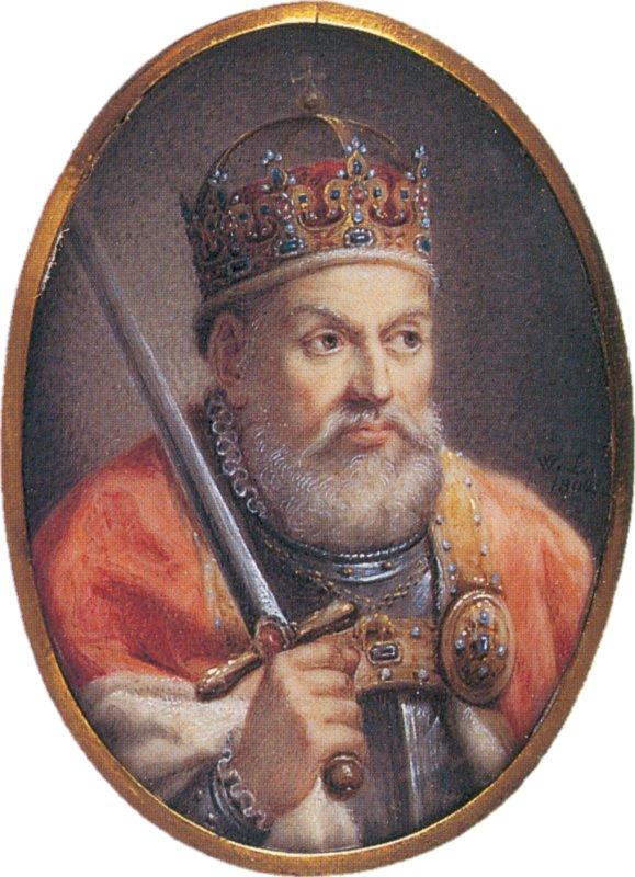 King Sigmund I Old, waterpaint, goache on ivory, 6,8 ×4,9cm, Polish Museum in Rapperswil, Switzerland